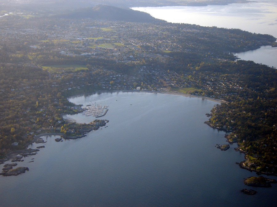 Image by me Taken April, 2006